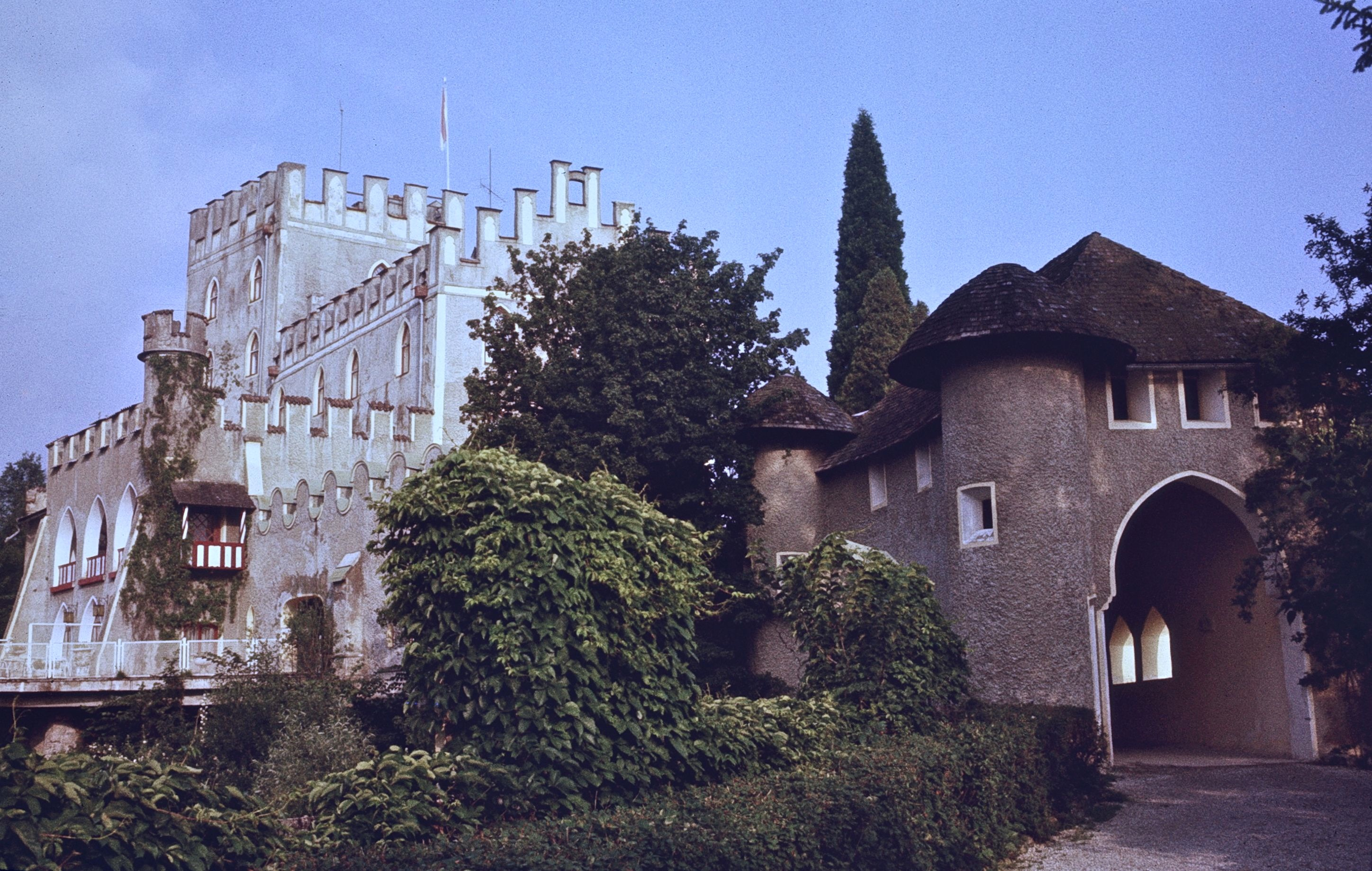 Schloss Itter (Itter Castle) viewed from the east, along the pathway to the entrance, in 1979.